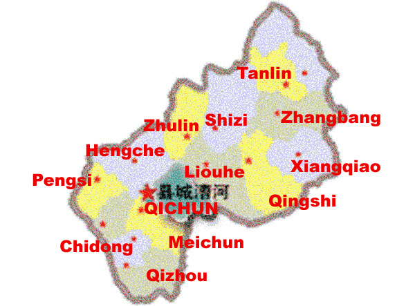 This county map, showing the precincts of Qichun County, was drawn by me, using drawing and photo software packages. It is my (Frank Feather) own intellectual property. It is not subject to copyright and I gladly release it into the public domain. This map is now outdated as of January 2018.